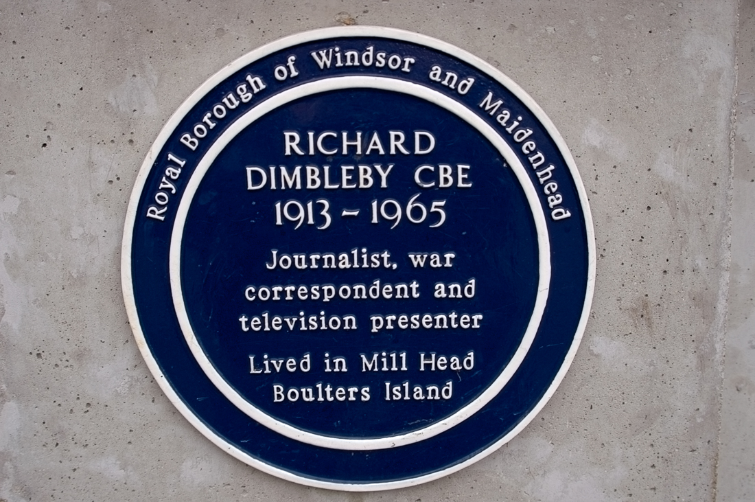 Richard Dimblebys Blue Plaque